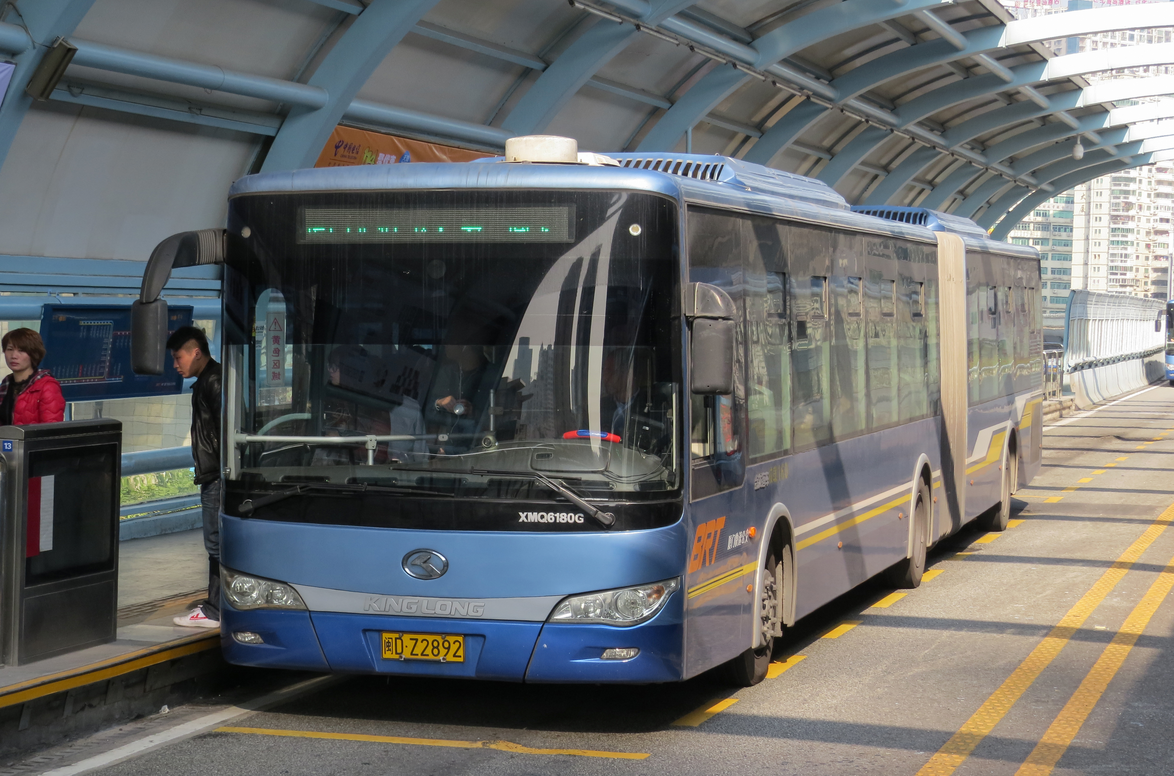 BRT1 from Xiamenbei Station to 1st Ferry Pier. Even the XMQ6180G can only handle 160 passengers.